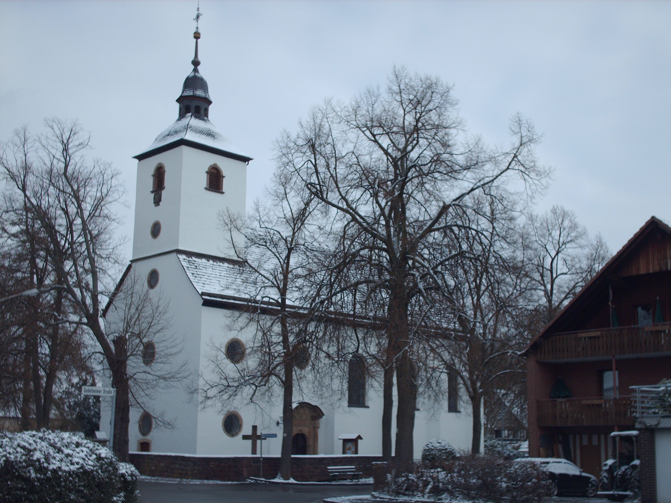 Holy Family and Holy Stephanus Wehrden, Beverungen, Germany check usage Address Vitusstraße 2 37688 Beverungen Germany Date23 March 2008SourceOwn work. (→ weitere 1,937 Bilder von mir in der Galerie)AuthorStefan FlöperPermission (Reusing this file) cc-by-sa-3.0, gfdl 1.2+